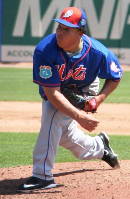 Batrolo Colon pitching during spring training